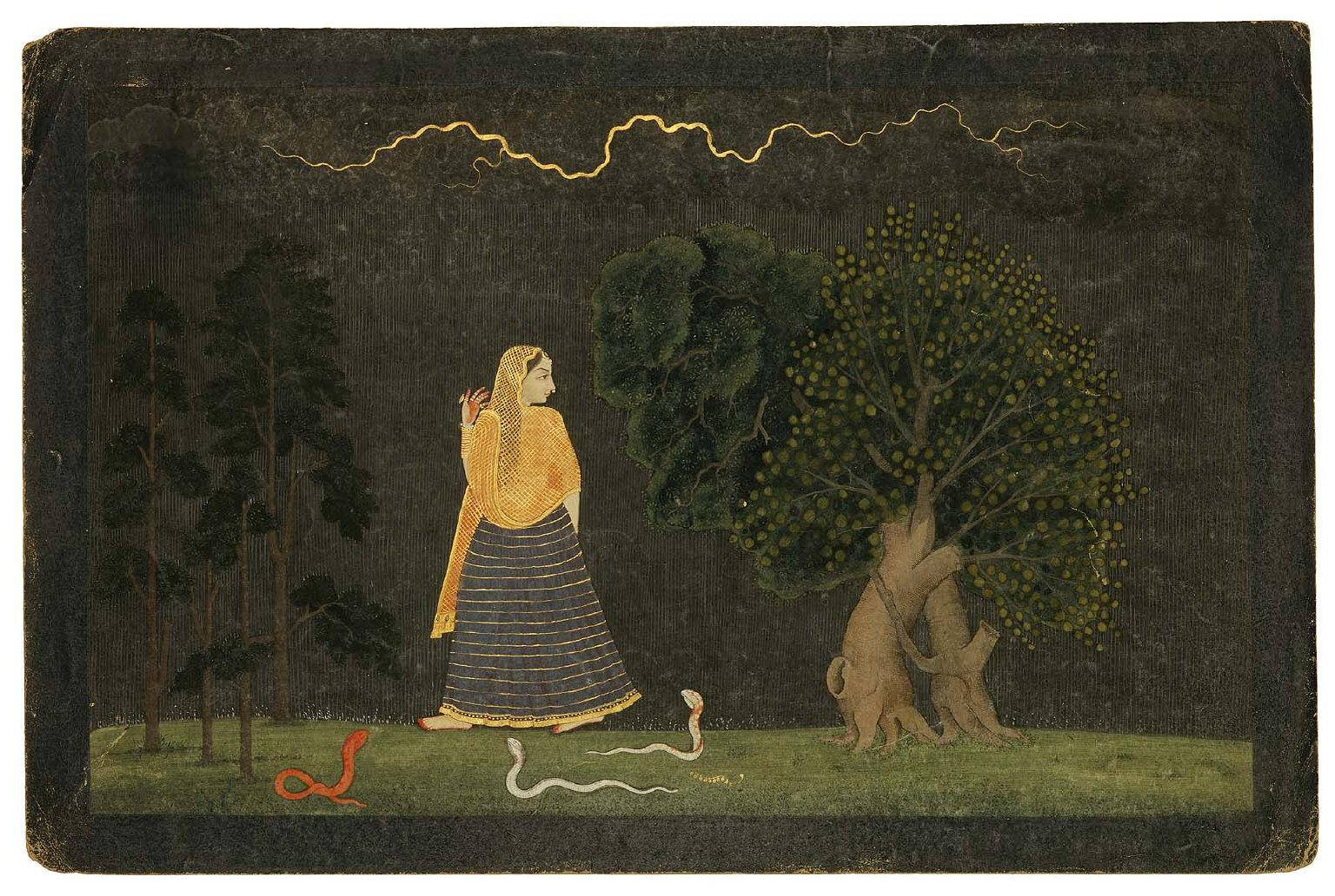 Family_of_Nainsukh._Heroine_Rushing_to_Her_Lover(Abhisarika_Nayika)_Late_18_cent,_Boston_MFA